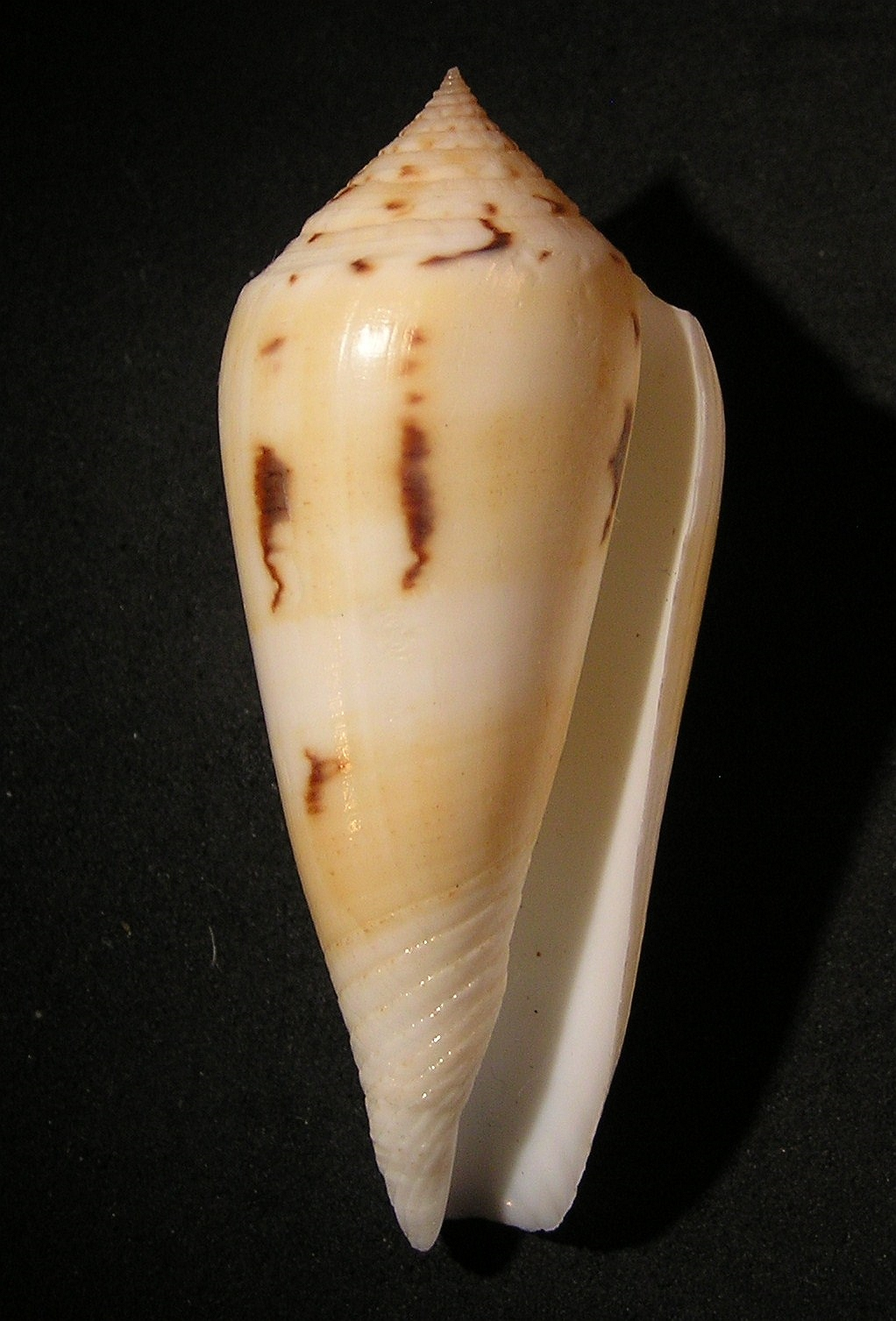 Conus consors daullei Crosse, 1858 ; Thailand